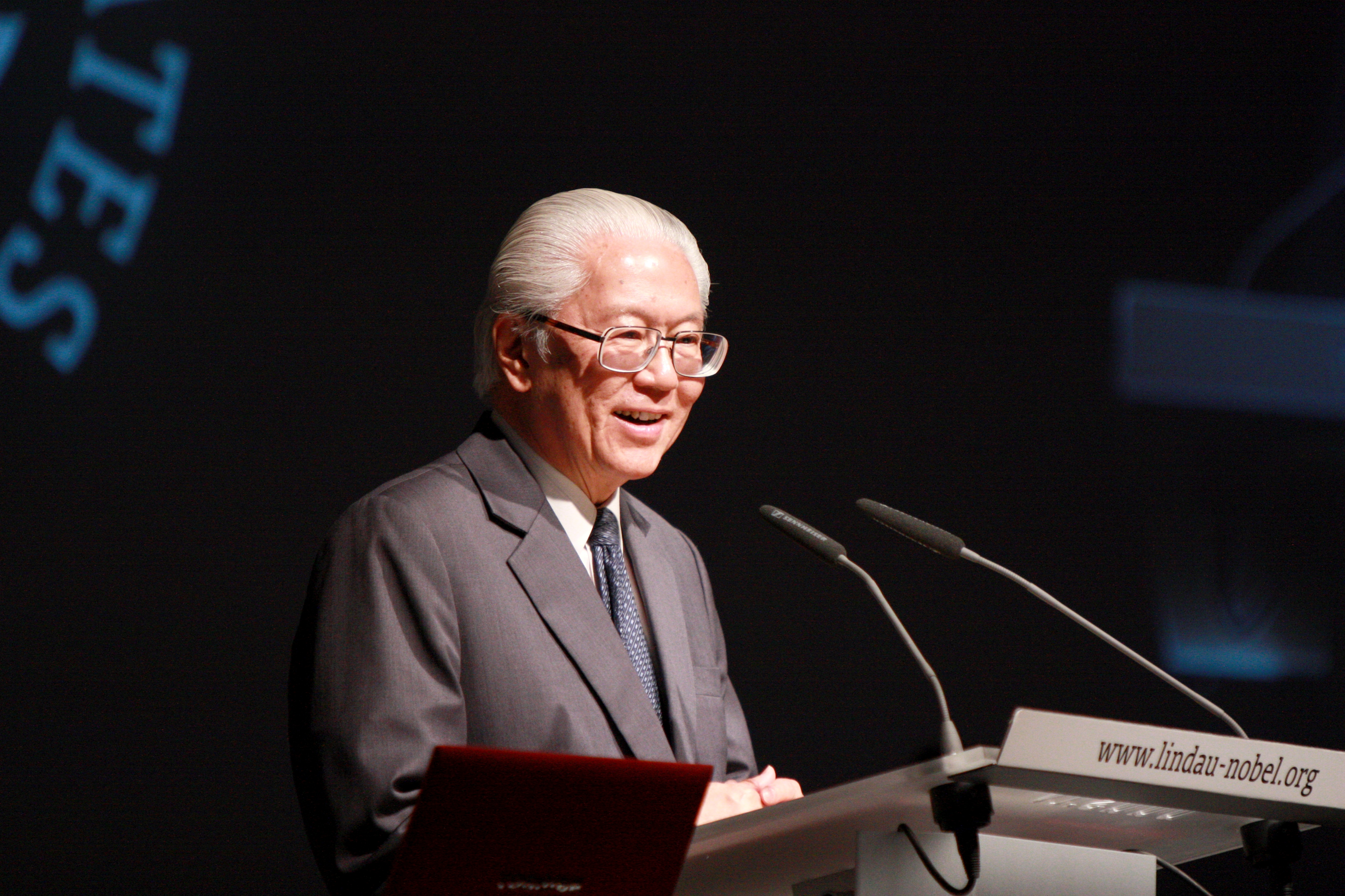 Singaporean president Tony Tan opening the "International Evening" at the 2012 Lindau Nobel Laureate Meeting